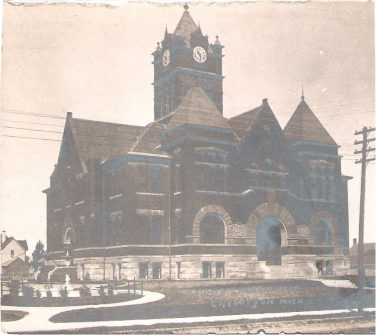 Cheboygan county courthouse